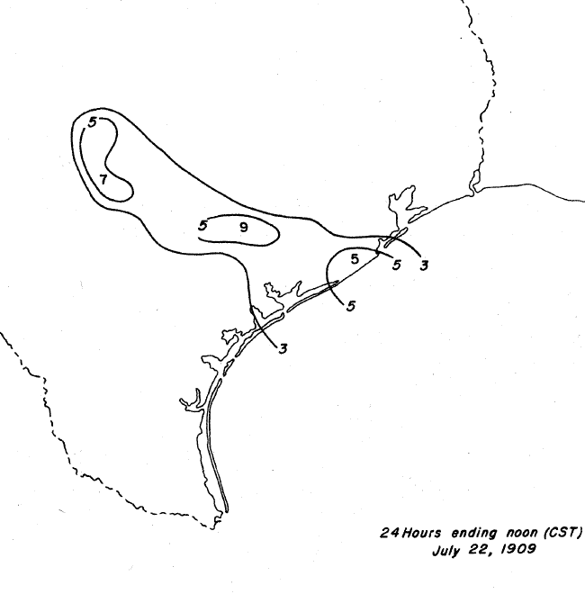 Rainfall totals from Hurricane Four of the 1932 Atlantic hurricane season.